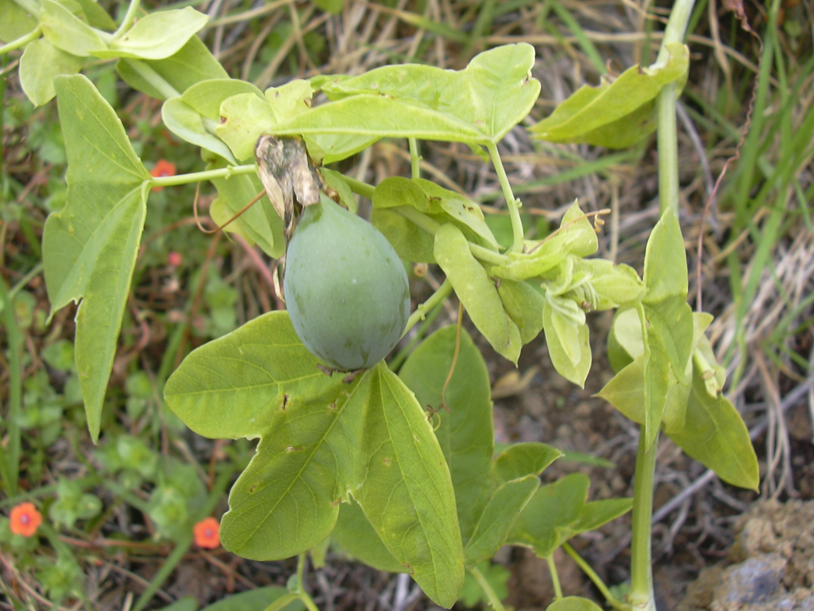 Passiflora subpeltata (leaves and fruit). Location: Maui, Auwahi Template:Name:White passion flower